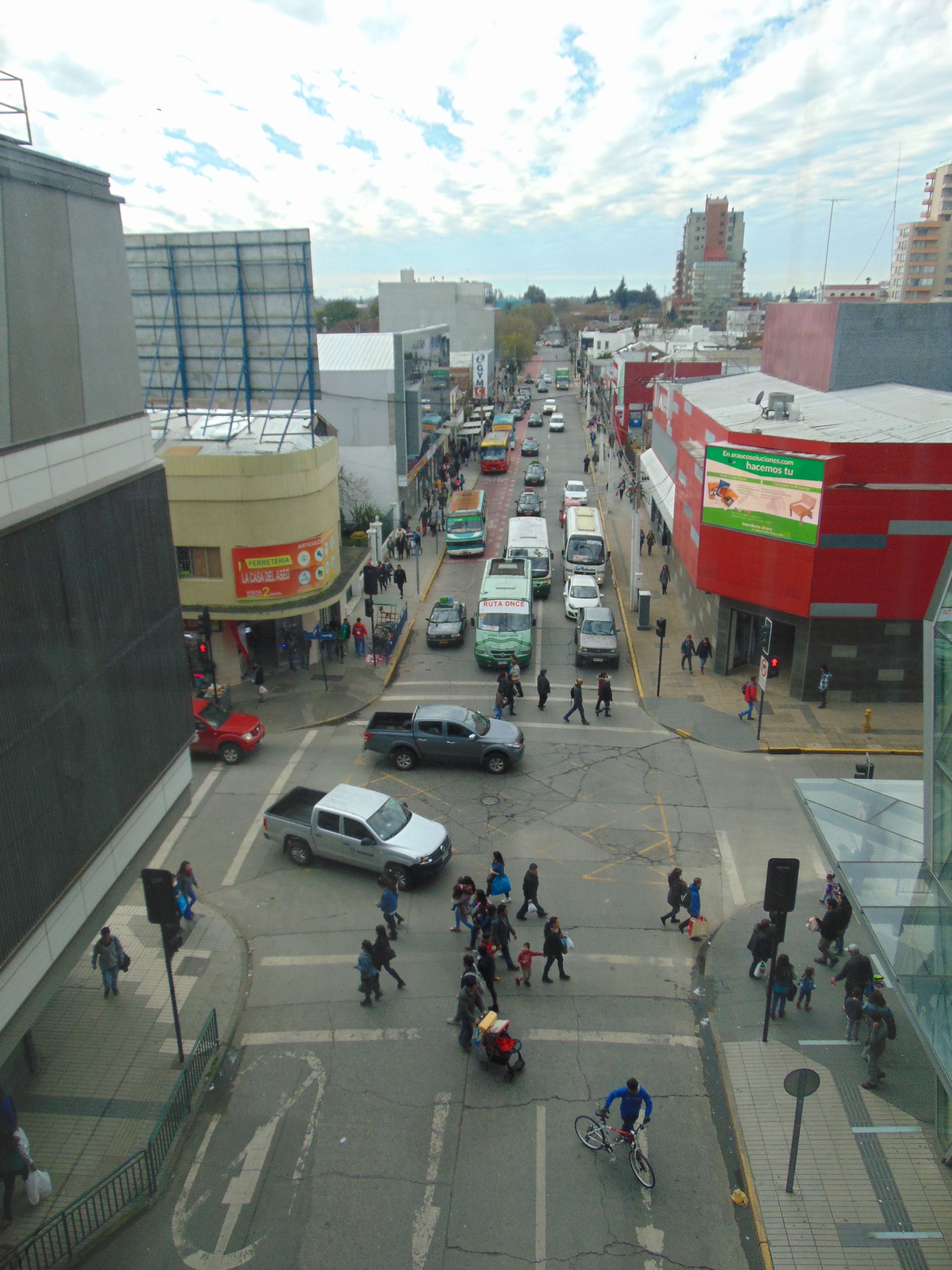 El Roble corner Isabel Riquelme